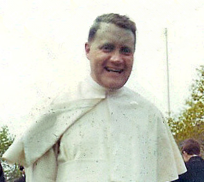 Father Brendan Smyth, Our Lady of Mercy, East Greenwich, Rhode Island, USA